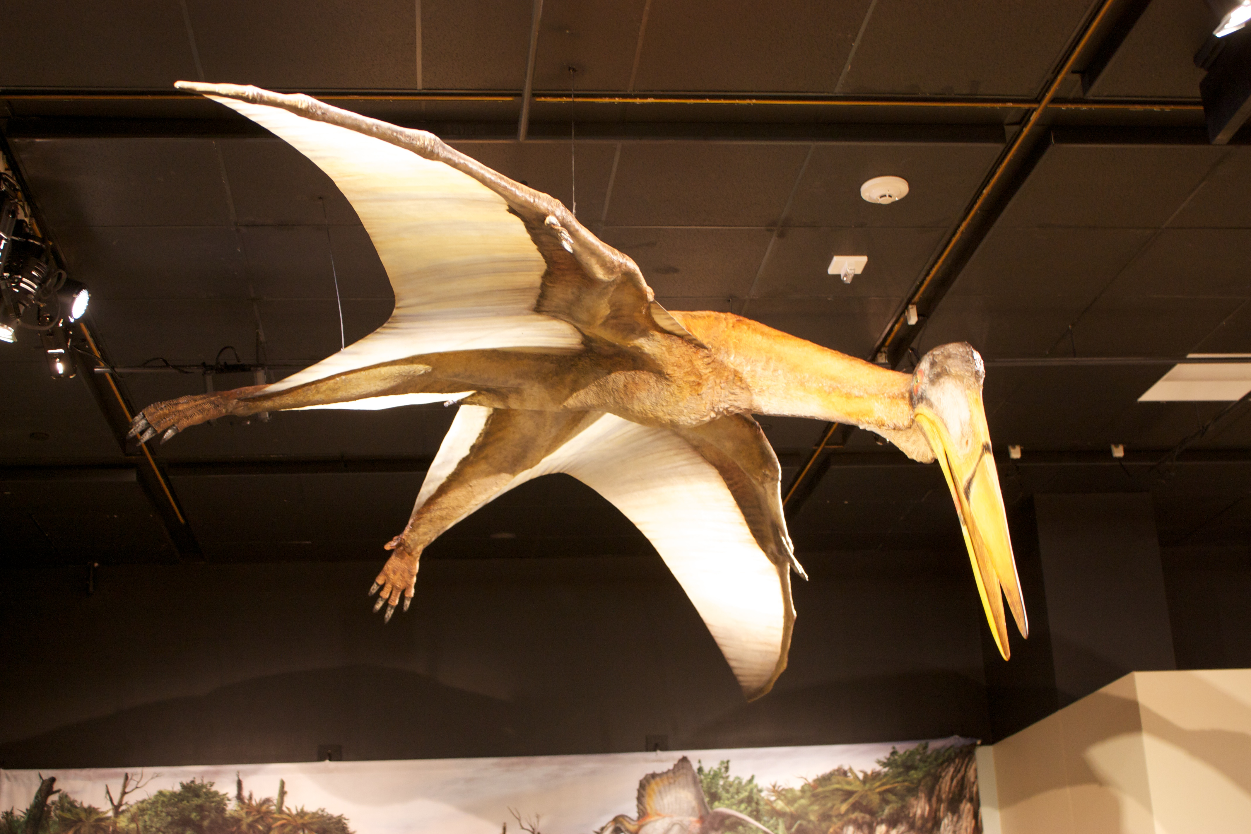 Model of the azhdarchid pterosaur Alanqa saharica as it might have appeared in life. Alanqa was first described by Ibrahim et al. in 2010, and this model of it appears in the 2014 Spinosaurus exhibition in the National Geographic Museum displaying a new specimen of Spinosaurus also first described by Ibrahim and colleagues.